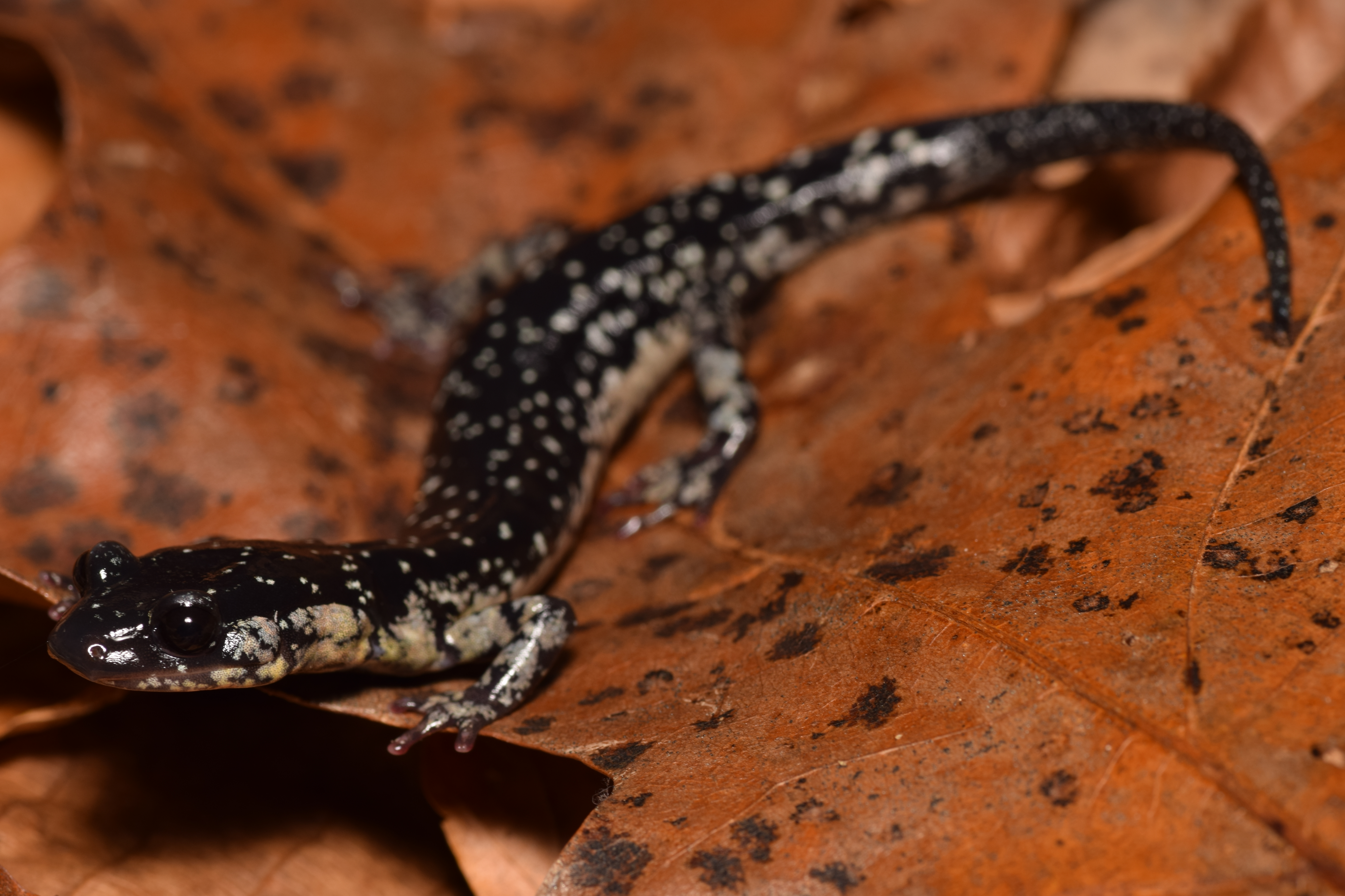 Plethodon kentucki